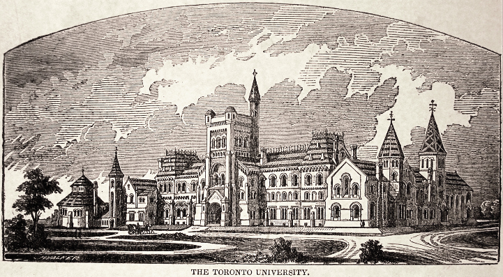 The Toronto University. Ink on paper - Wood engraving. Toronto, Canada.